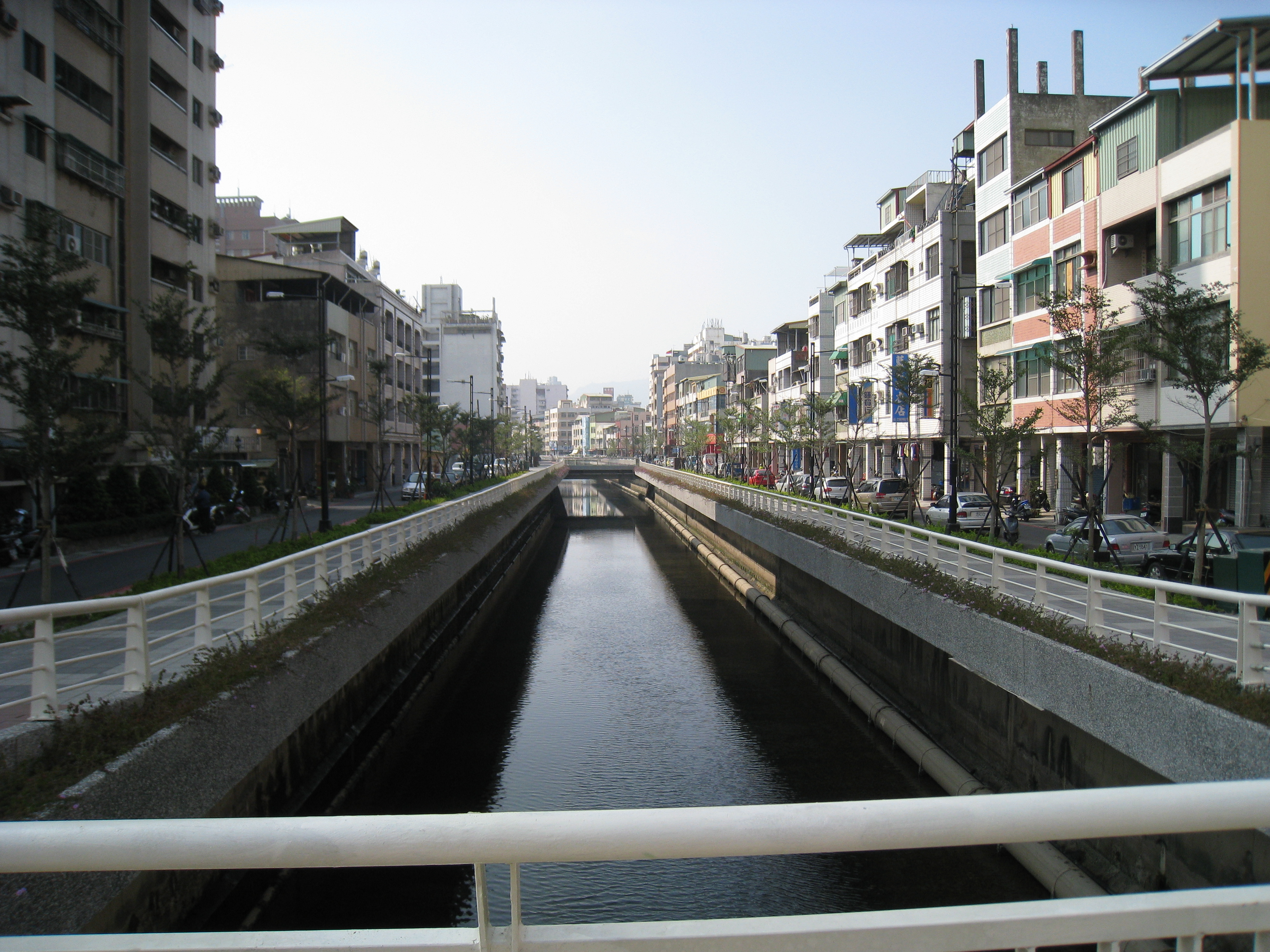 Second Canal (No.2 Canal), Kaohsiung